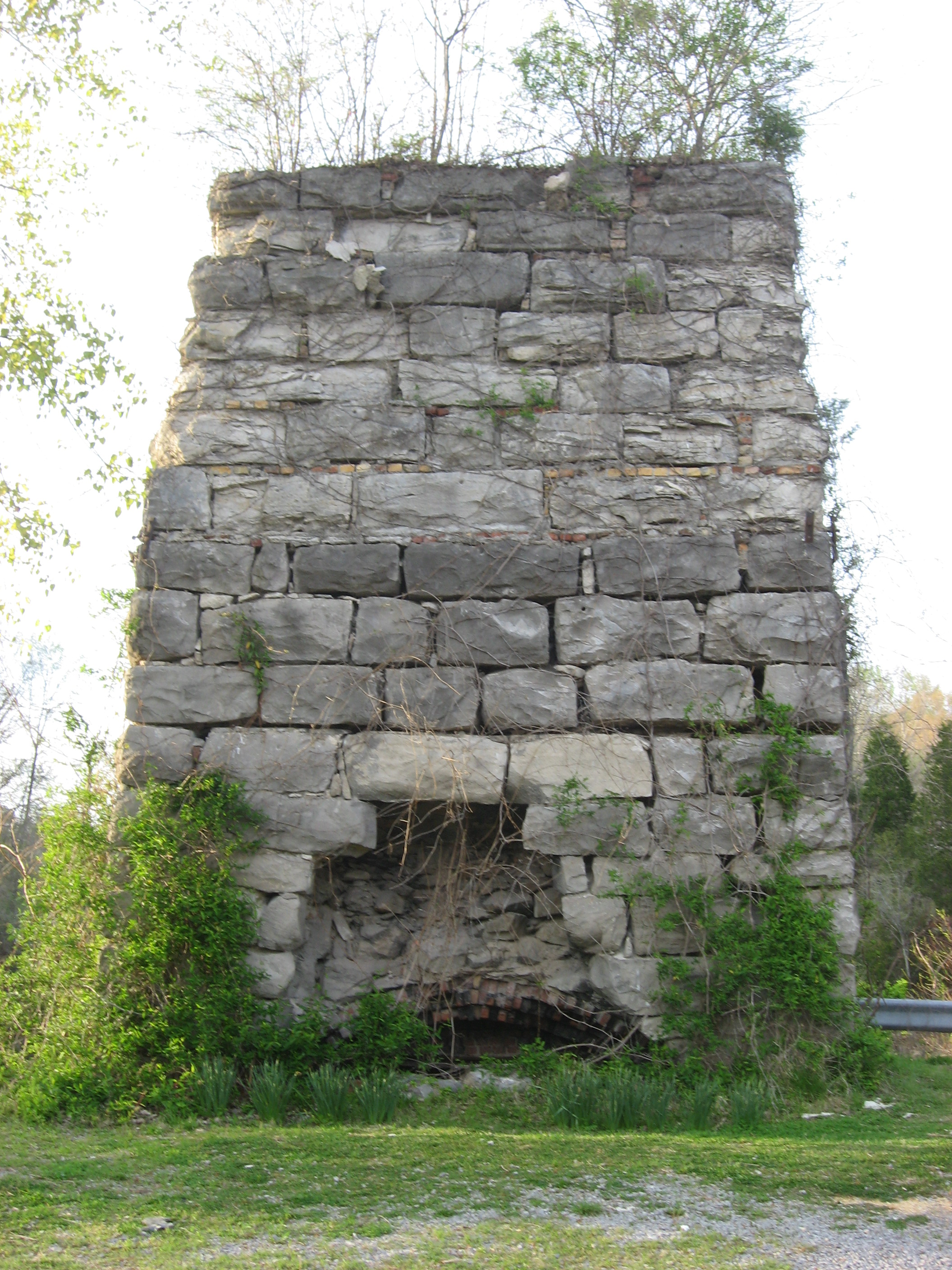 Front of the Quarry Limekiln, located on the northern side of W. Main Street (State Route 49) adjacent to the Mazatlan Restaurant in Erin, Tennessee, United States. It is listed on the National Register of Historic Places.